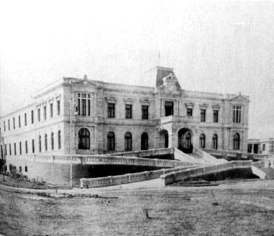 Central place of psichiatric hospital "La Castañeda", in Mexico, twentieth century beginning.